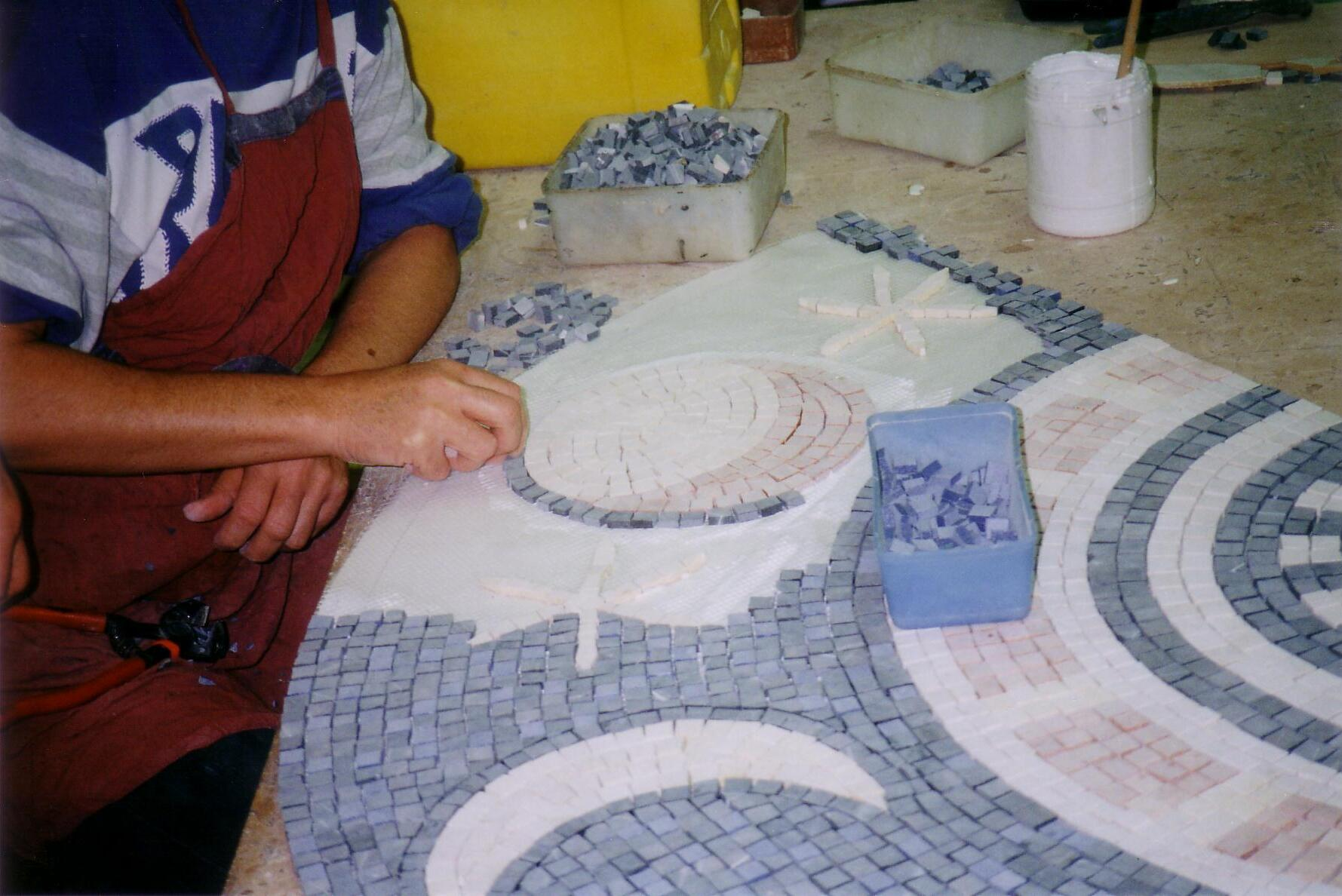 Making mosaic in IsraelMosaic stones0001